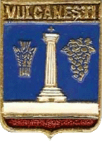 Valkaneş gerbı